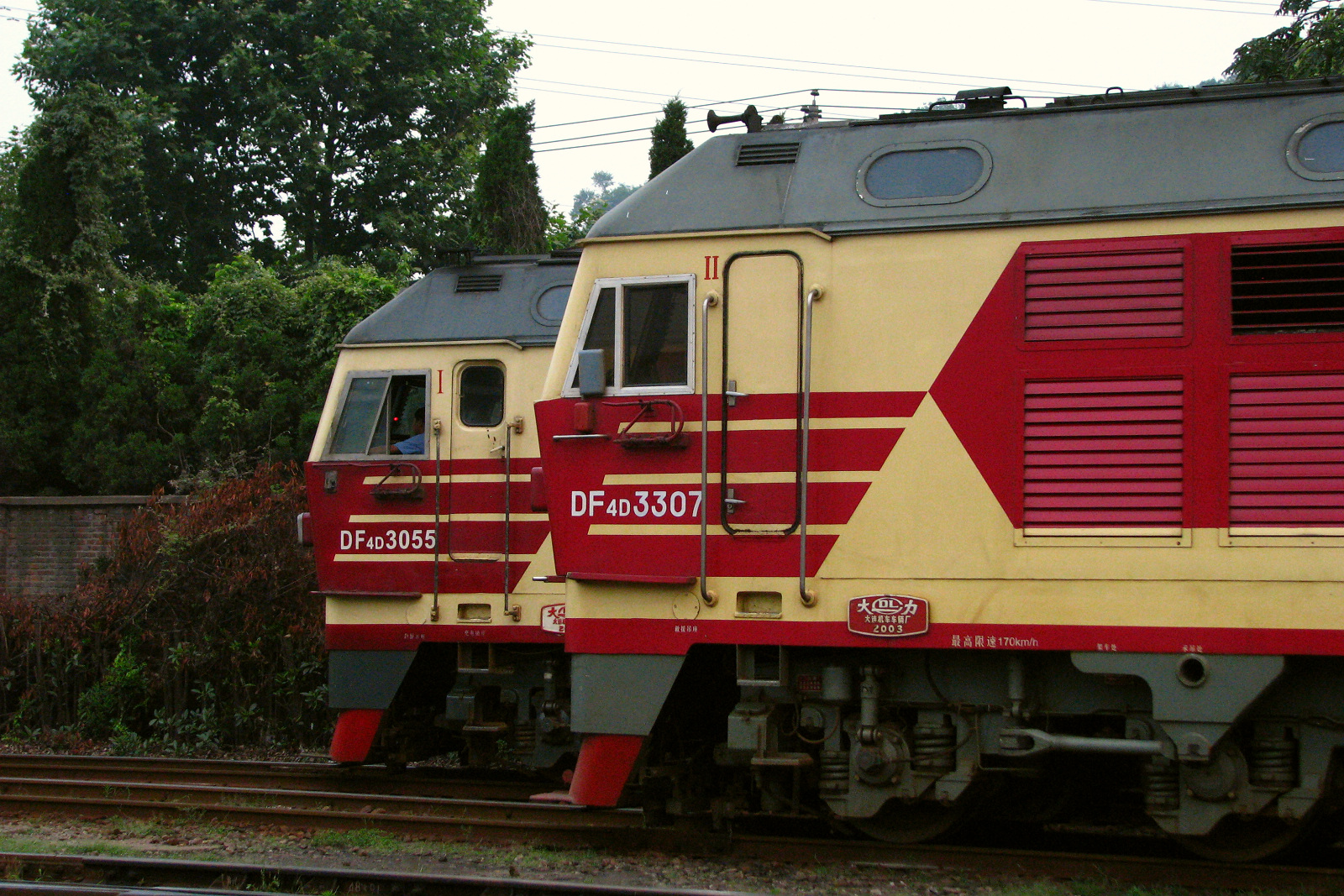 Two China Railways DF4D diesel locomotives (No. 3055 and 3307, the later one is equipped with a standardized cab)